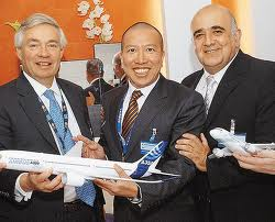 A photo of Tony Chan.